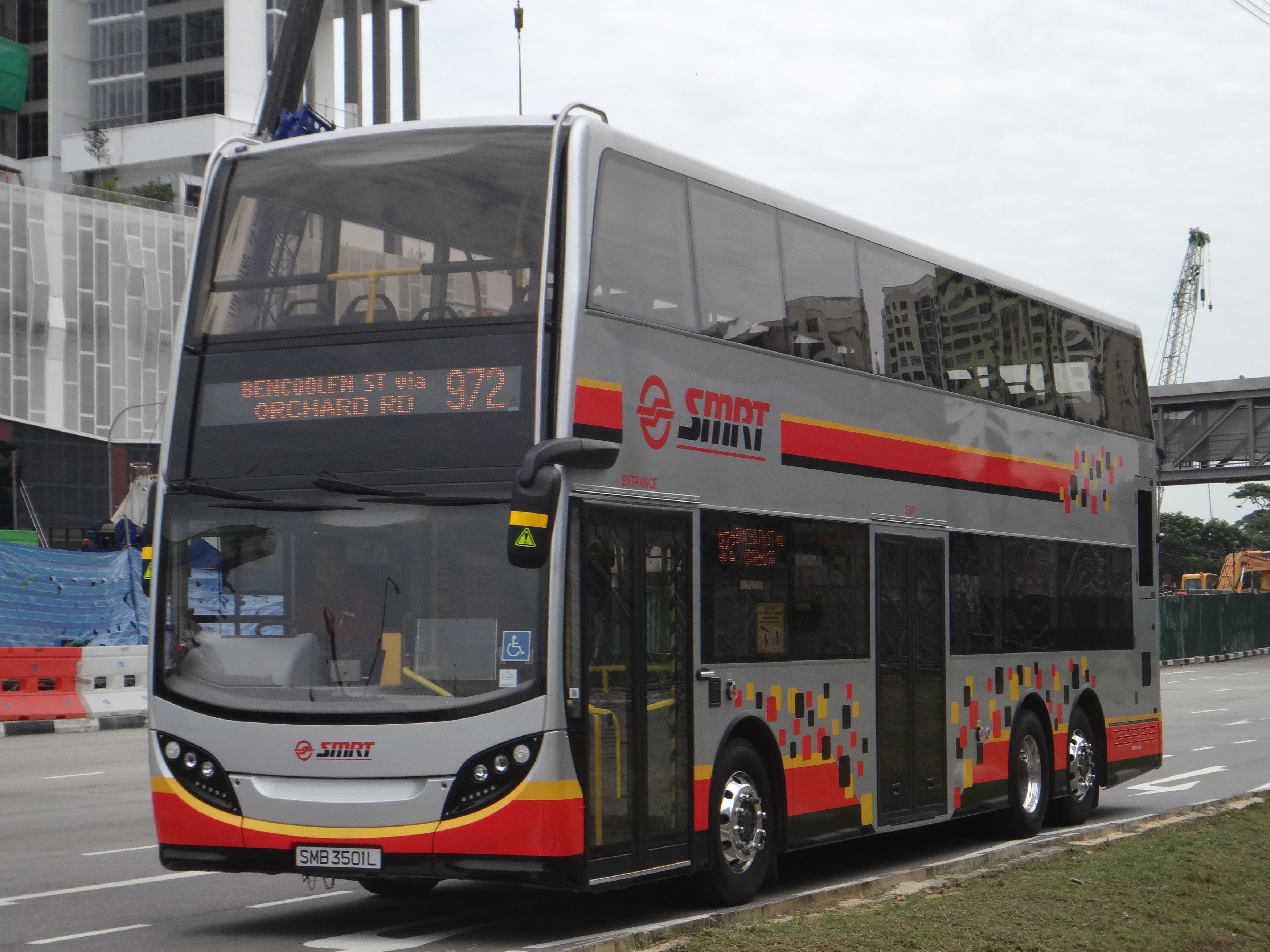 An Alexander-Dennis Enviro500 MMC operated by SMRT Buses at Bukit Panjang, Singapore.